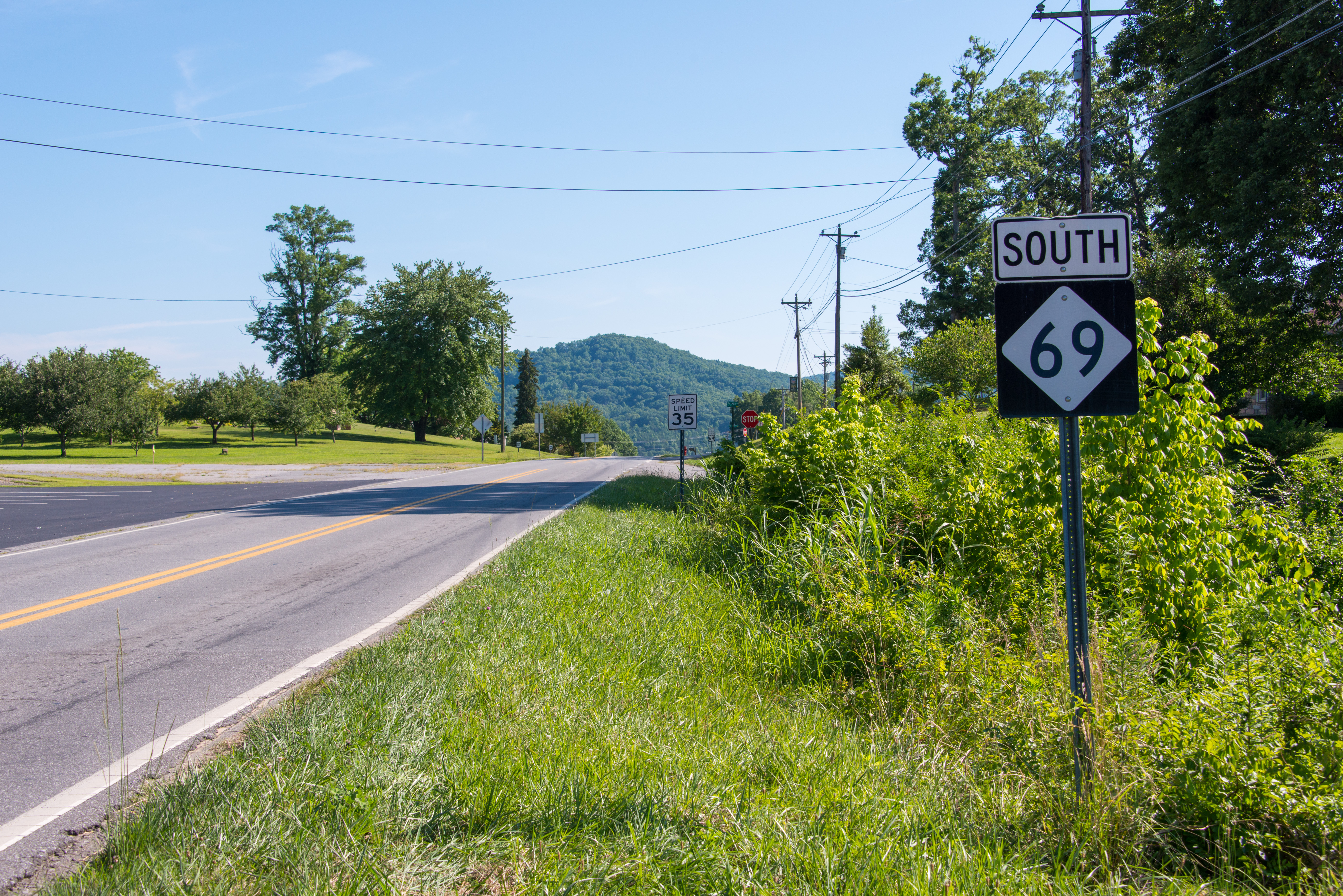 First sign of North Carolina Highway 69, leaving the roundabout, and heading towards US 64 and eventually the Georgia state line.